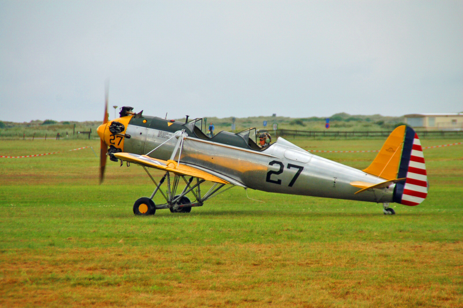 Picture taken by Arjen Mulder, June 24th, 2007, Ameland Airfield, the Netherlands.